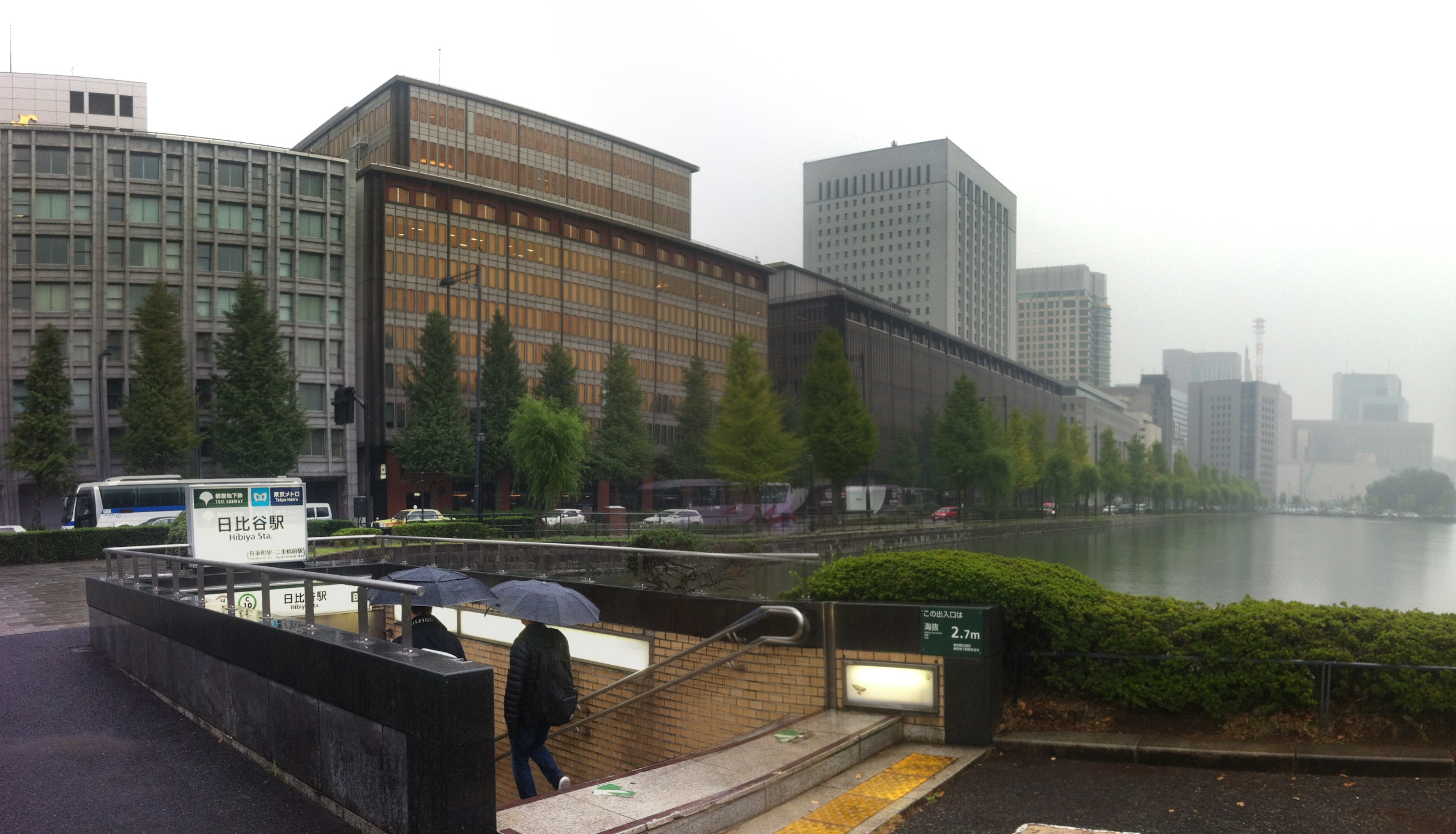 日比谷駅の出口、雨の日 Hibiya Station exit, rainy day